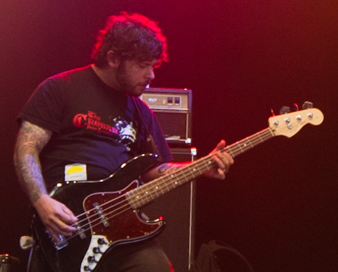 Roskilde Festival 2011